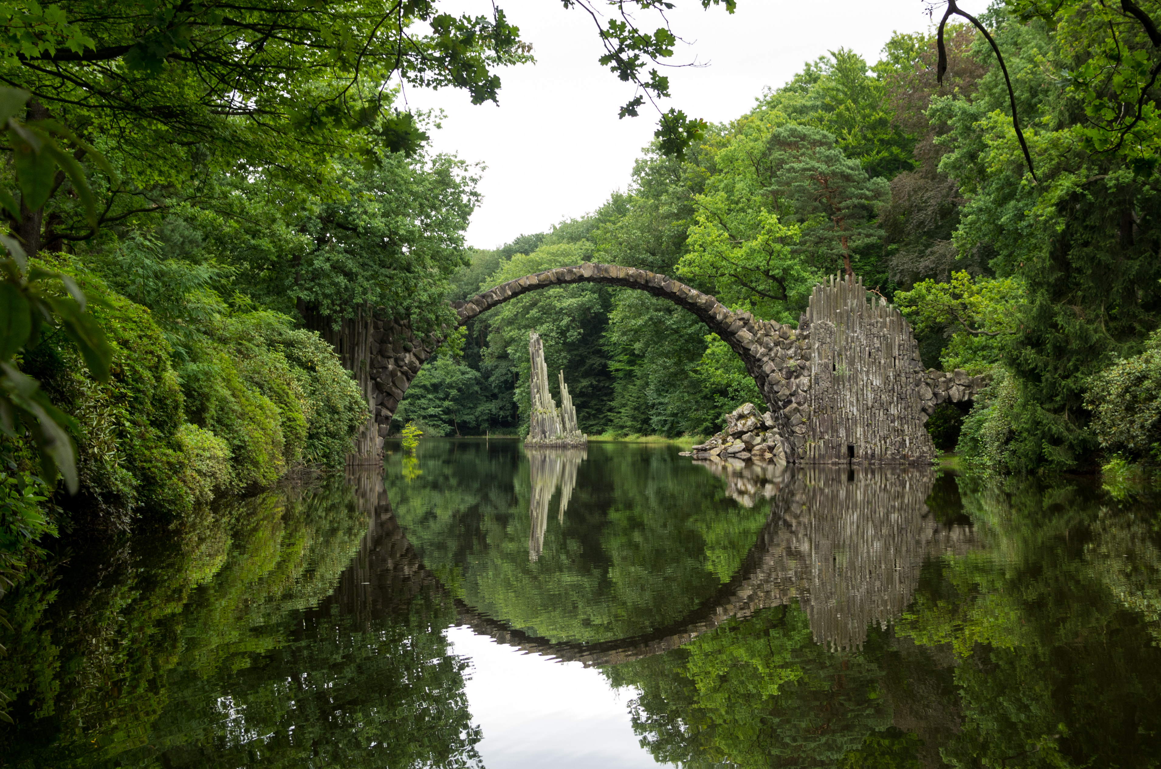 Rakotzbrücke (a.k.a The Devil’s Bridge) is located in Azalea and Rhododendron Park Kromlau